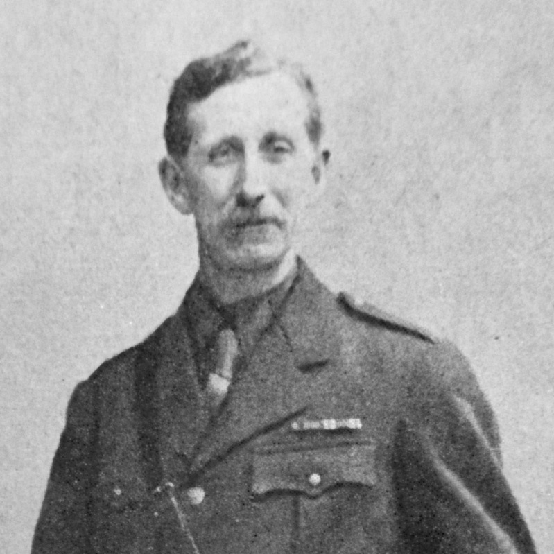 Picot cropped image from image published in L'Illustration, 26 January, 1918